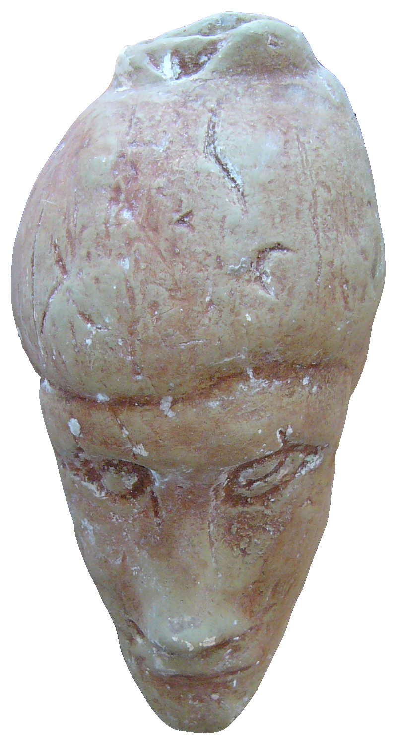 Photo of a plaster cast of the Mammoth Ivory Female head from Dolni Vestonice Known as the Dolni Vestonice Venus XV. A plaster cast is whitened and shows a morphology better than an original. A sculpture with an height of 45 mm shows probably the first portrait of a woman head made of Mammoth's bone. Locality: Dolní Věstonice, Gravettian culture.[1]